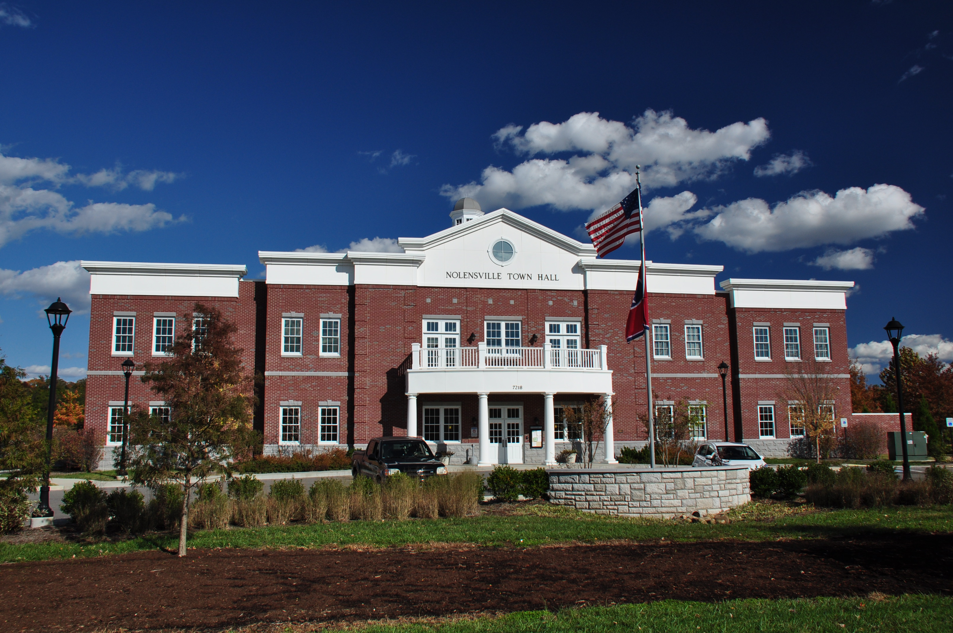 Address: 7218 Nolensville Rd, Nolensville, TN 37135